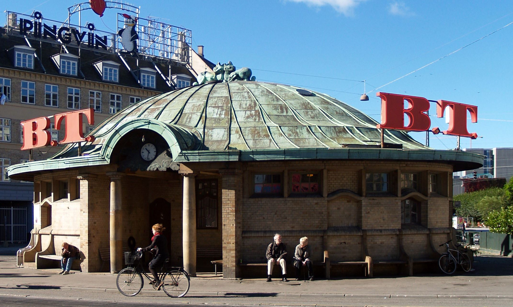 Waiting room for the tram in Copenhagen, featuring the B.T. logo as advertisement. Know as "Bien" (the bee) it is a landmark.